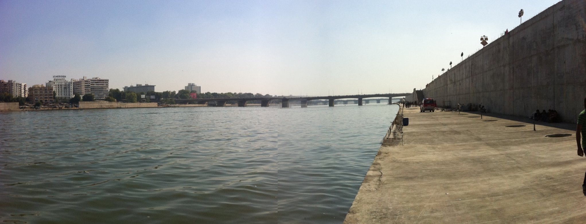 Sabarmati Riverfront, Ahmedabad, India